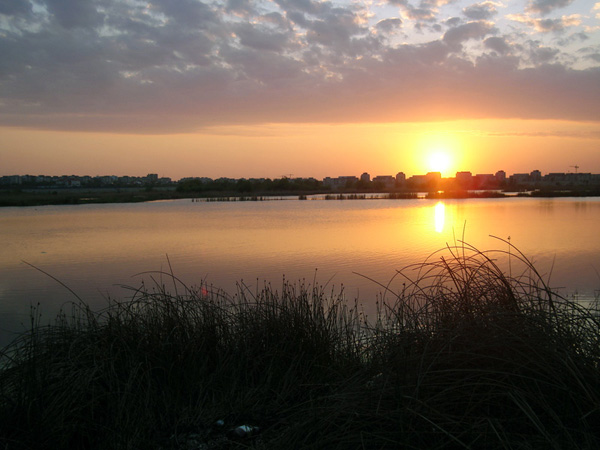 Văcărești Lake